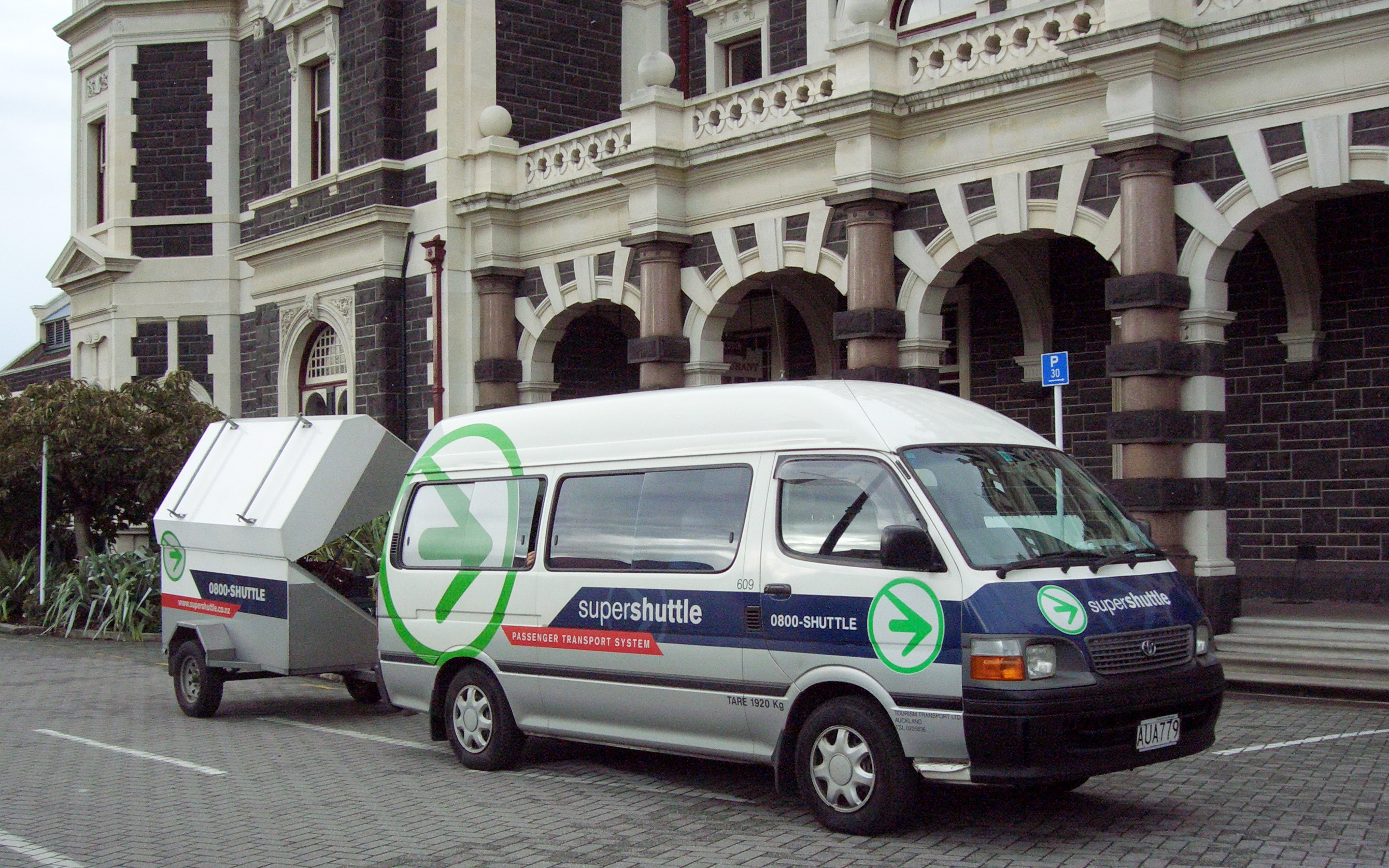 Super Shuttle van operated by Tourism Transport providing shared taxi service to Dunedin Airport from Dunedin Railway Station forecourt.